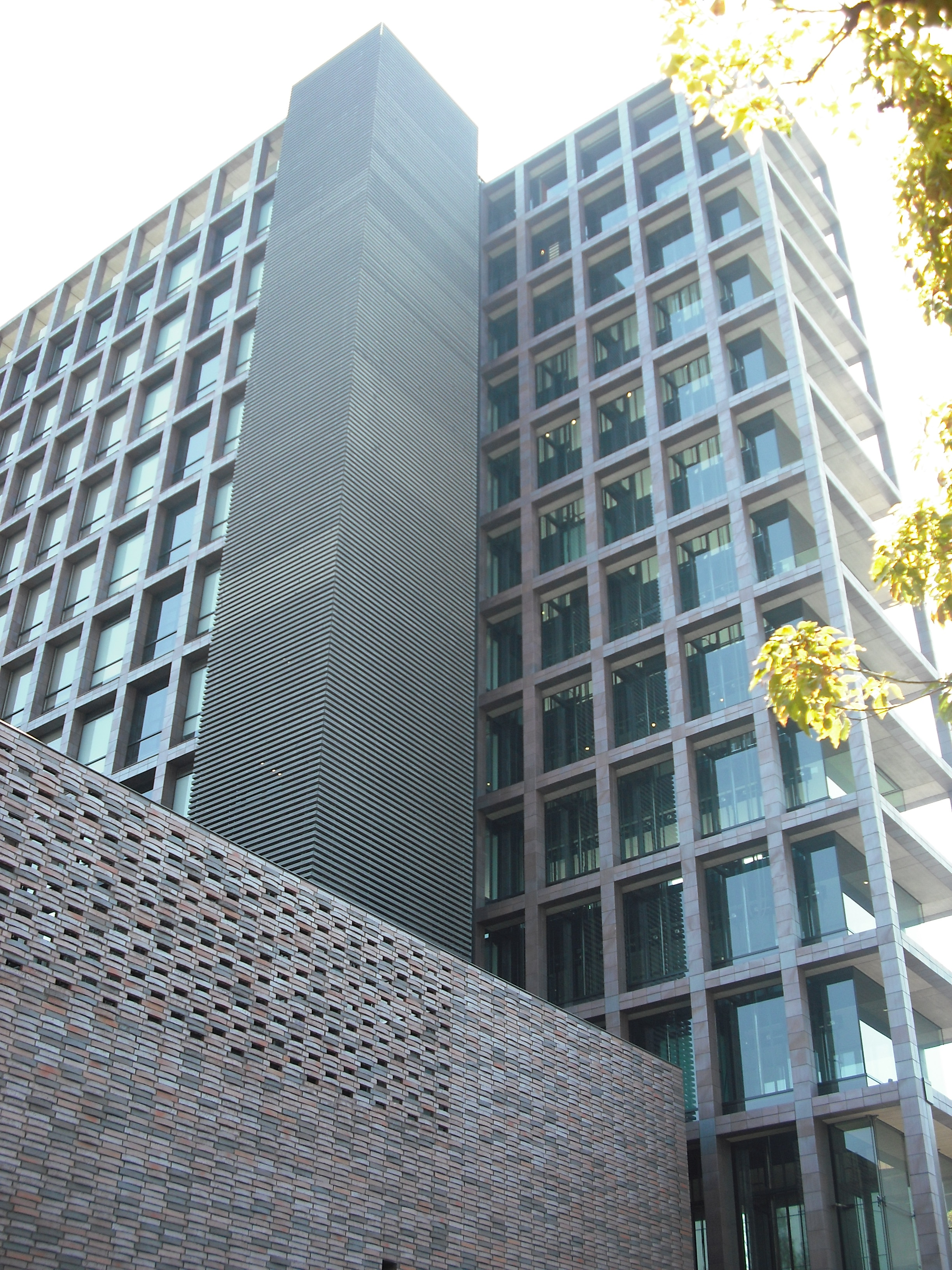 Osaka Bar Association Hall（Kita-ku, Osaka, Osaka Prefecture, Japan）